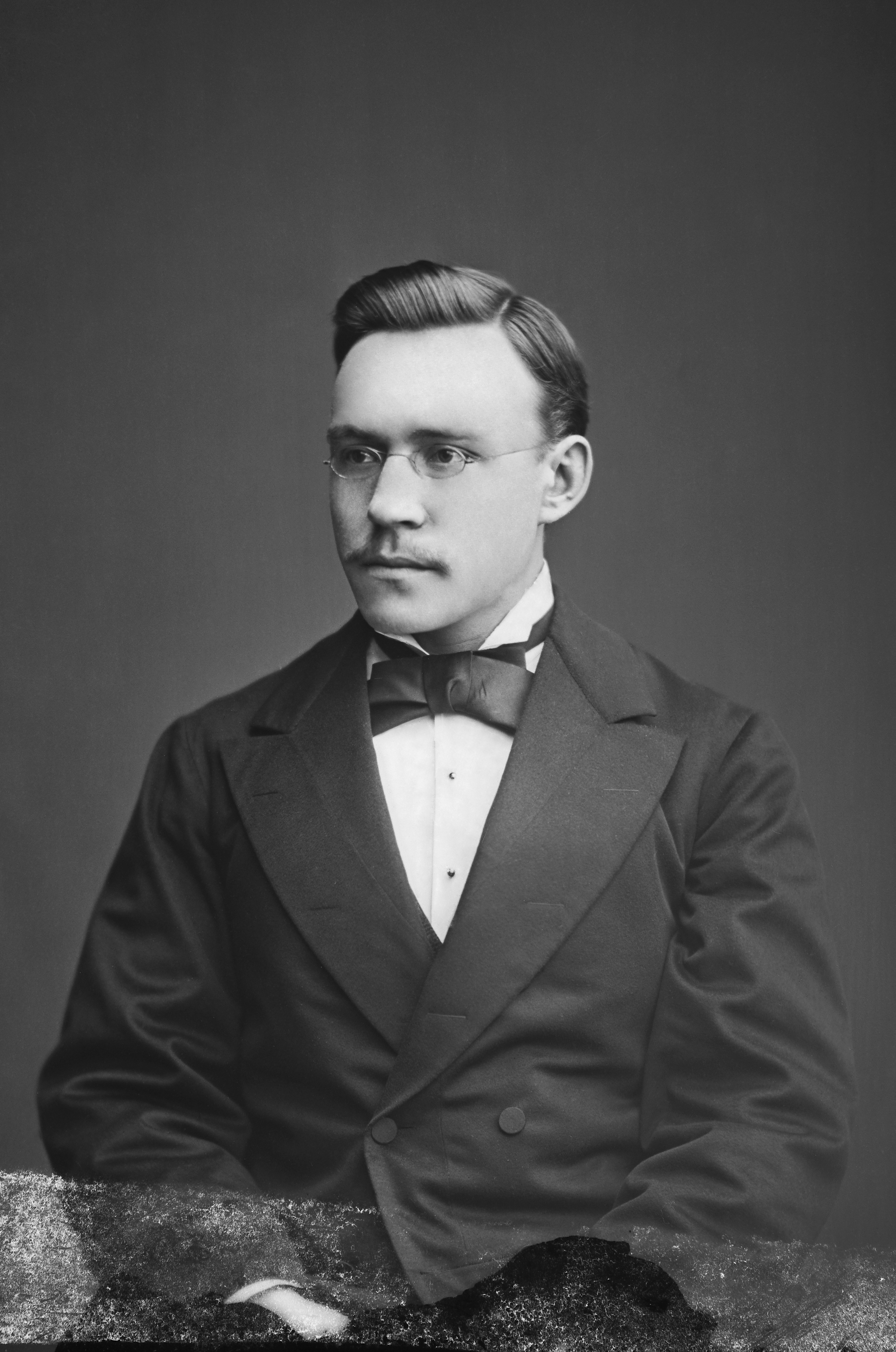 Photograph of the Finnish writer/editor Wilho Soini (1854–1934).